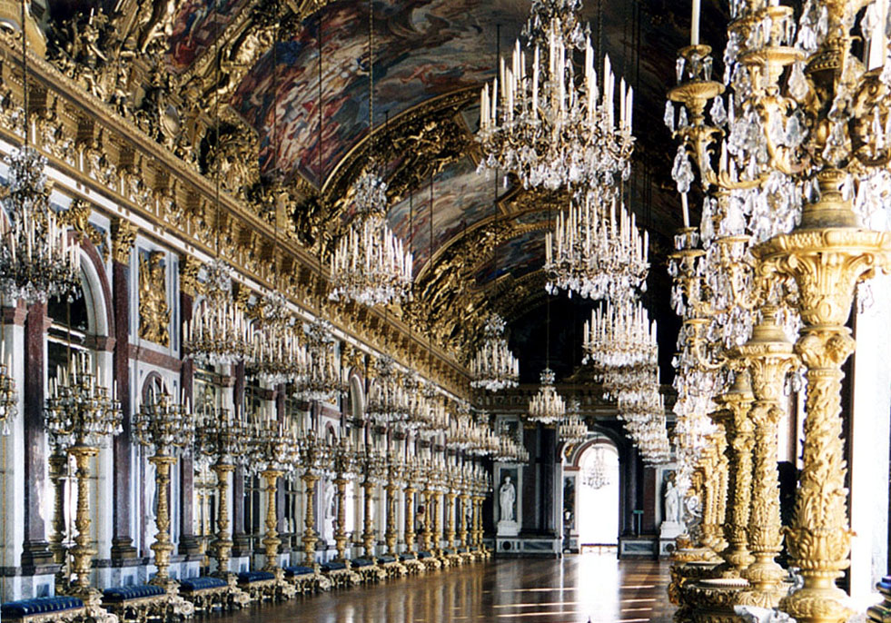 Hall of Mirrors at Herrenchiemsee Castle, Germany.